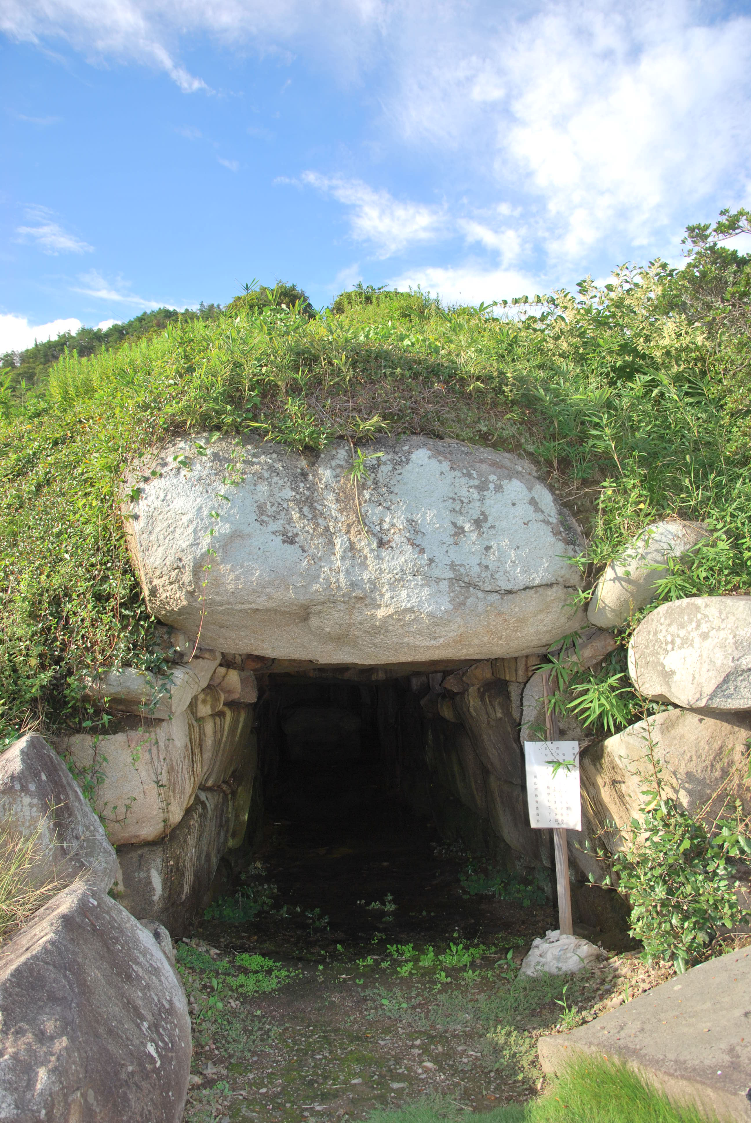 Entrance of stone chamber, Musa Otsuka Kofun